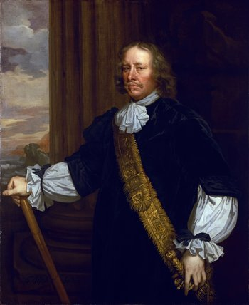 Depicted person: Joseph Jordan – English admiral